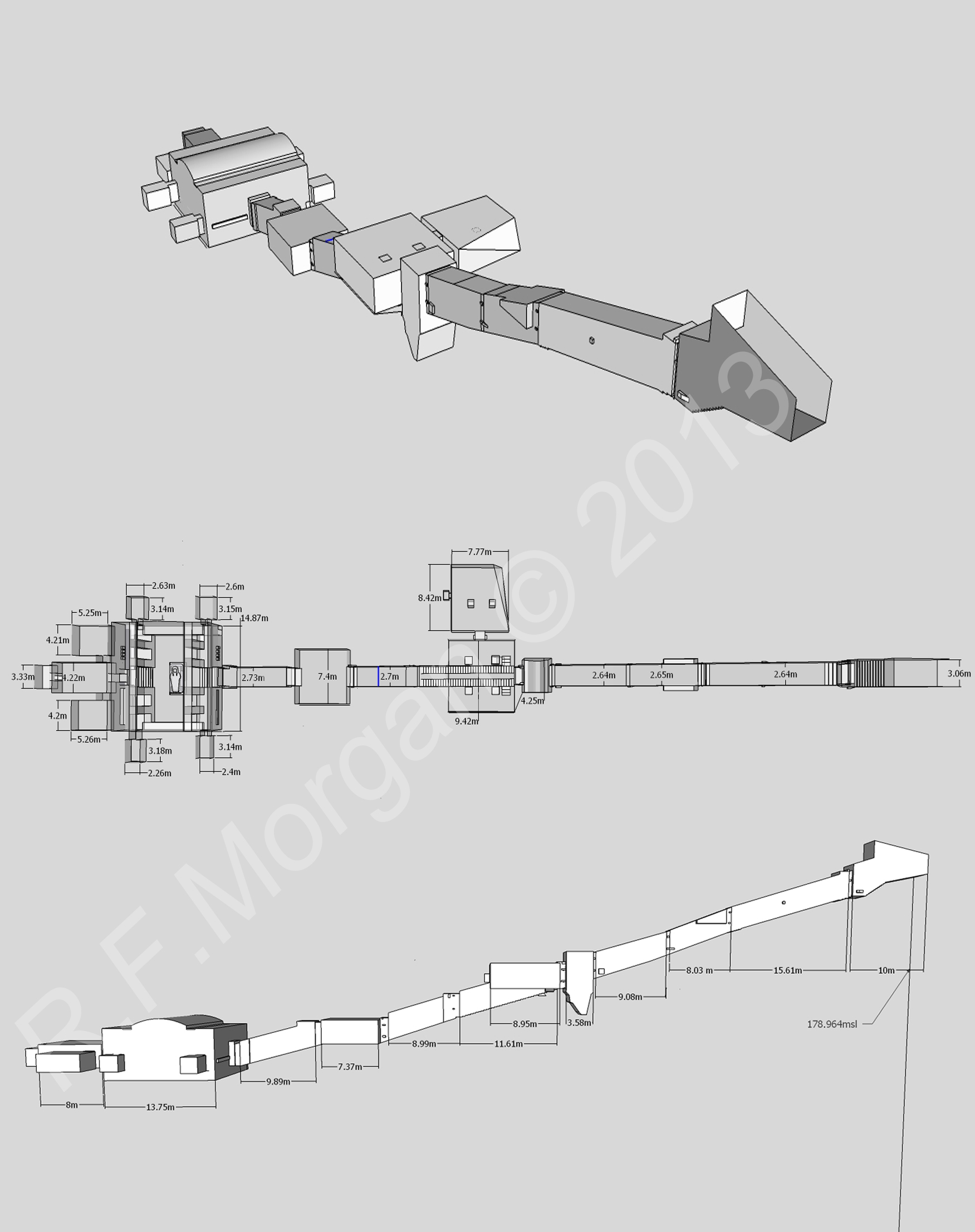 Isometric, plan and elevation images of KV8 taken from a 3d model